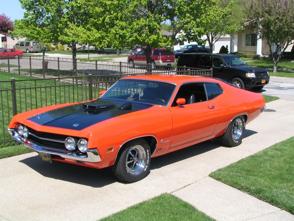 This is a photograph taken by Michael Chiolero of his own vehicle and he granted permission for this photo to be used under the following licence.